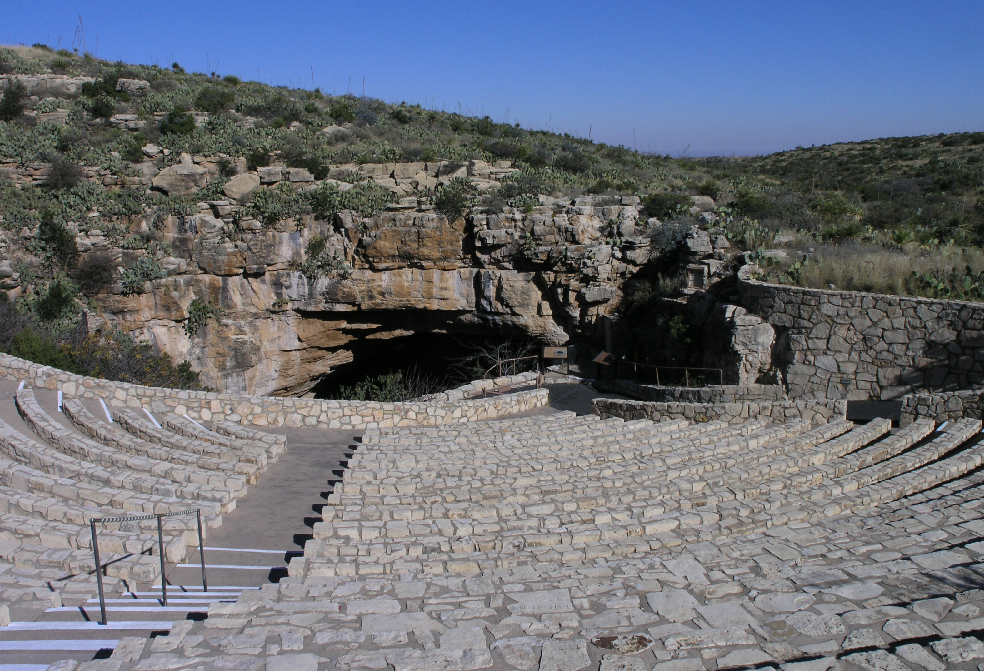 Carlsbad Caverns National Park